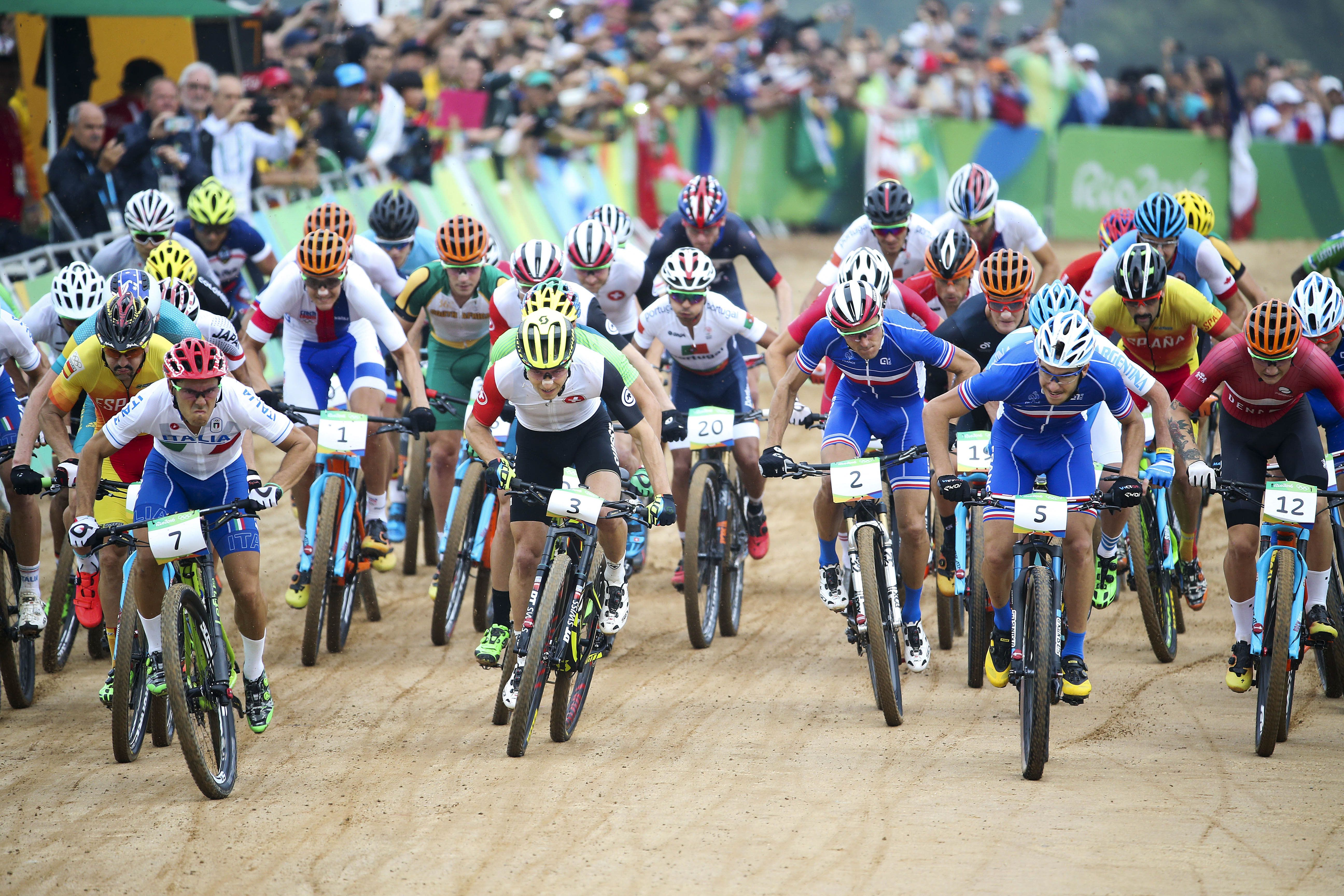 Cycling at the 2016 Summer Olympics – Men's cross-country